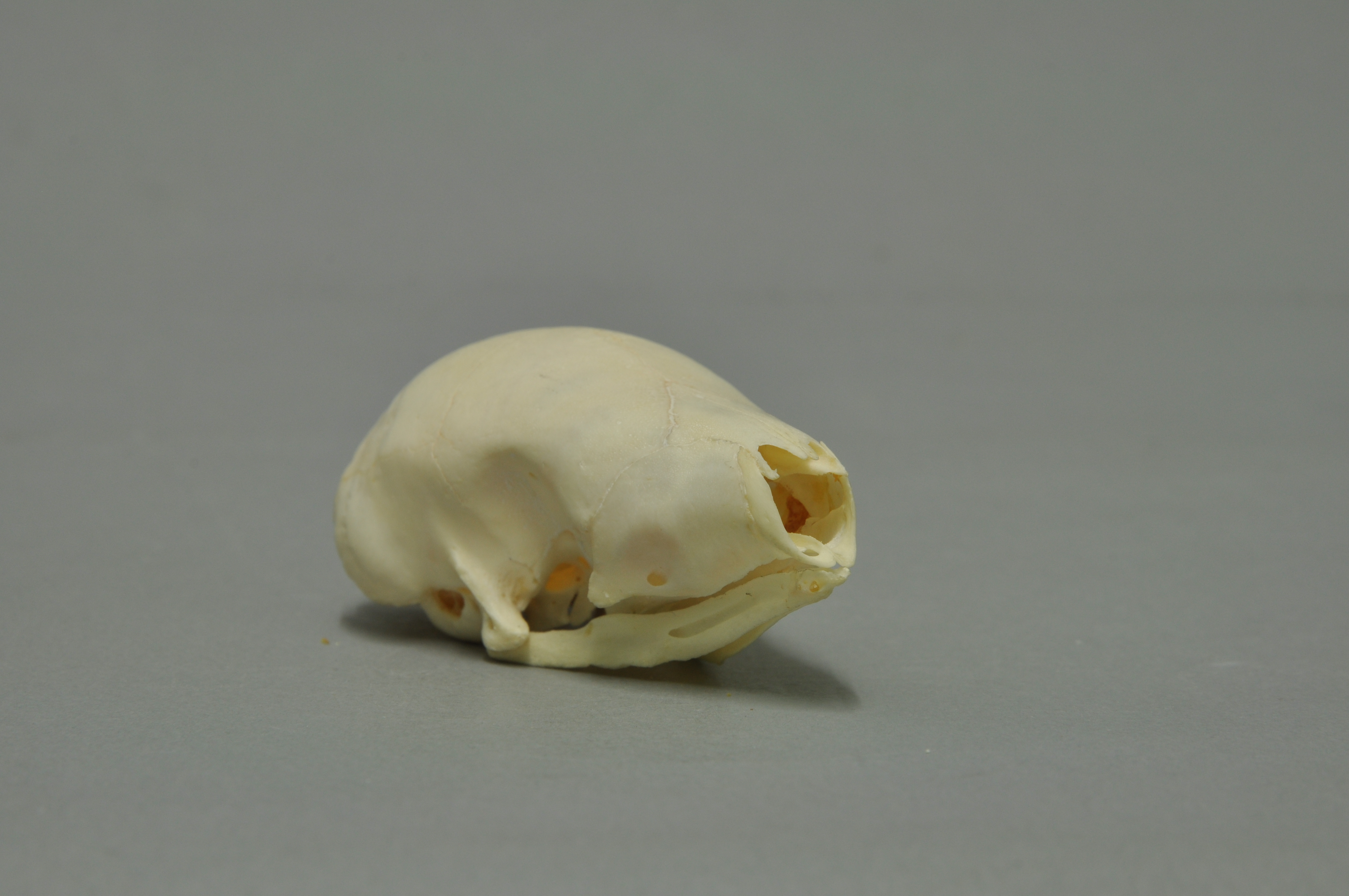 Ground pangolin Manis temminckii , skull, Coll. Museum Wiesbaden